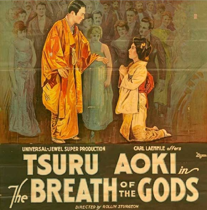 The Breath of the Gods is a silent movie released in 1920.